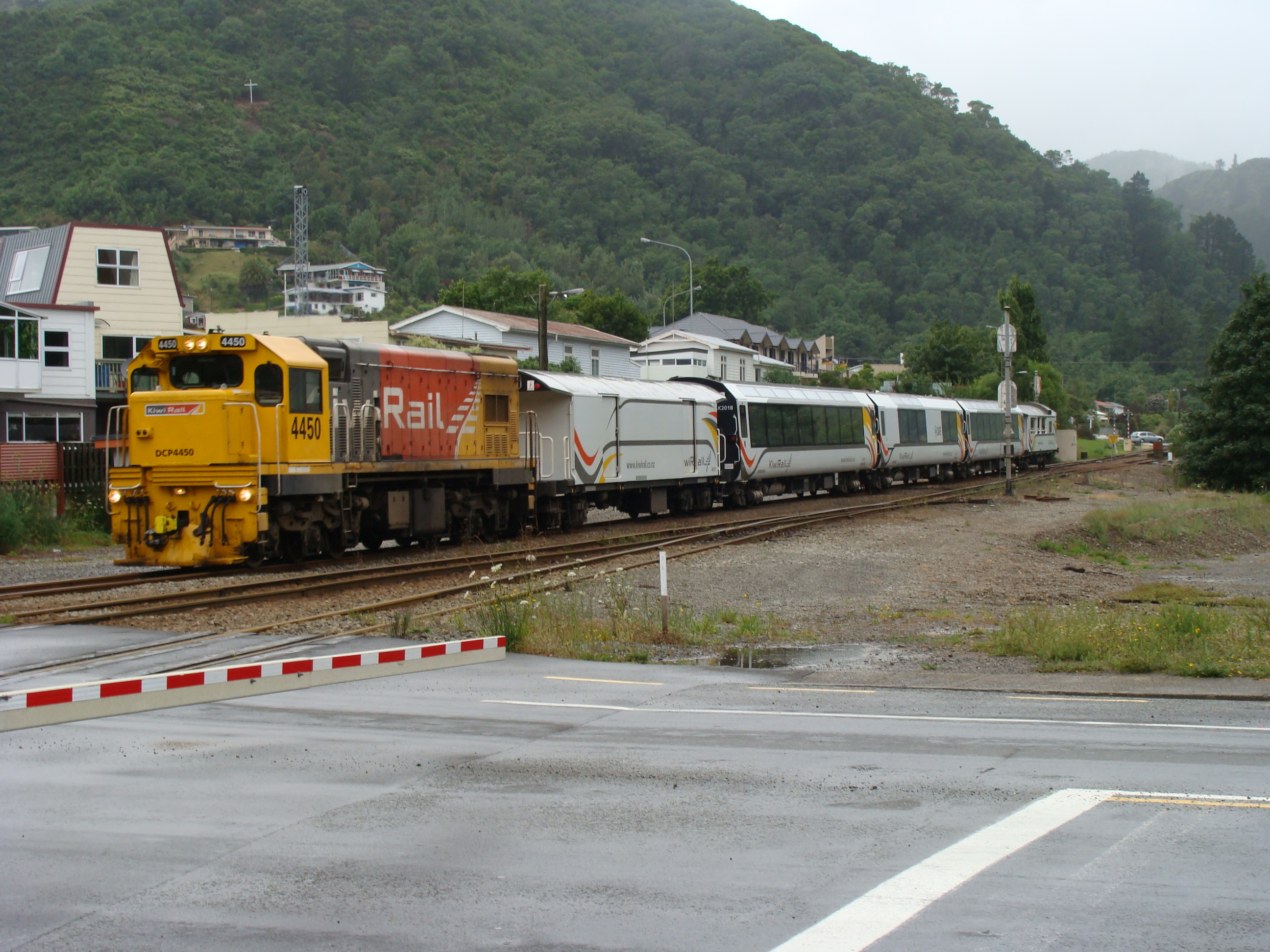 Northbound Coastal Pacific train about to cross Dublin Street, Picton and terminate at the railway station.